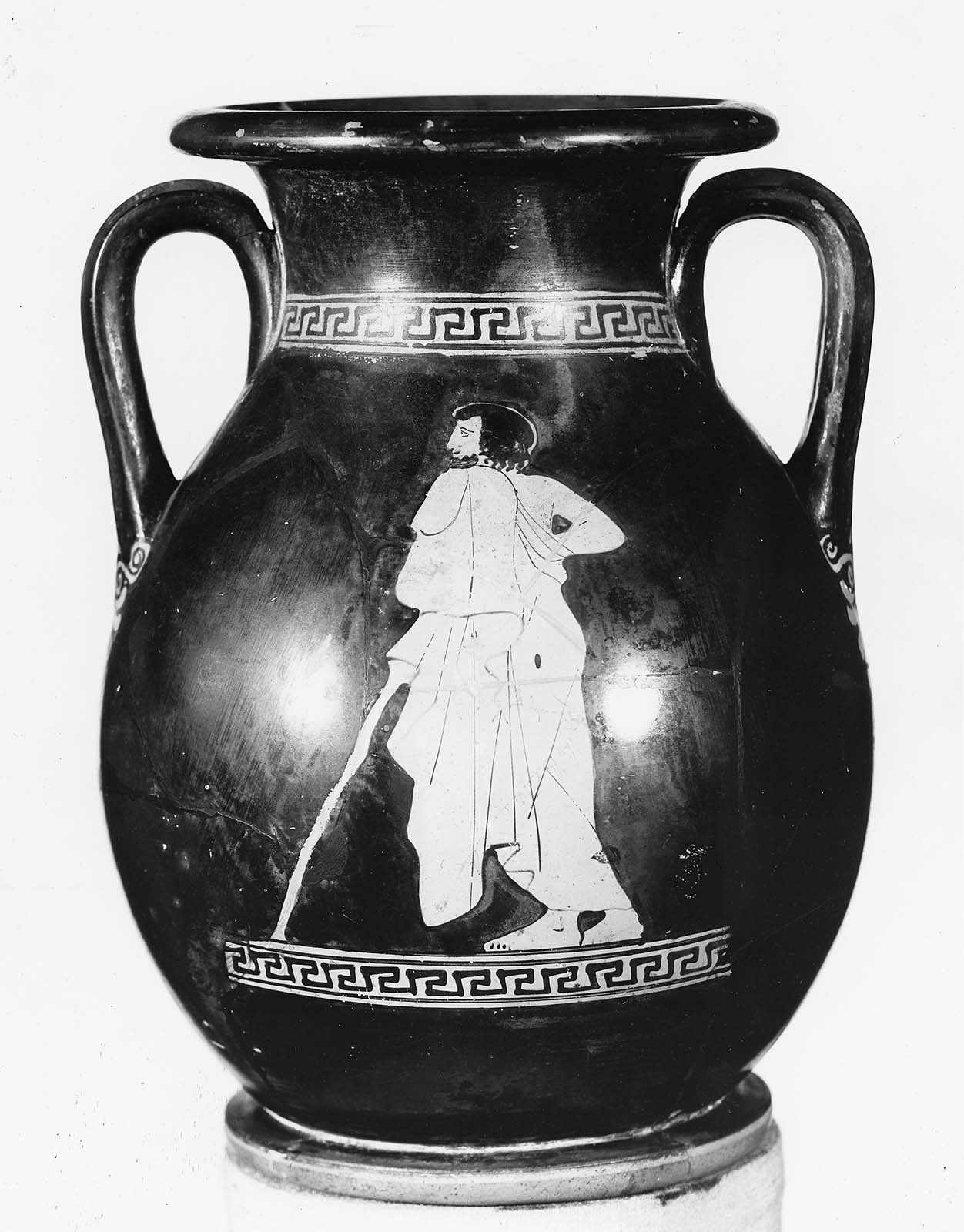 from MFA website: The other side of the pelike